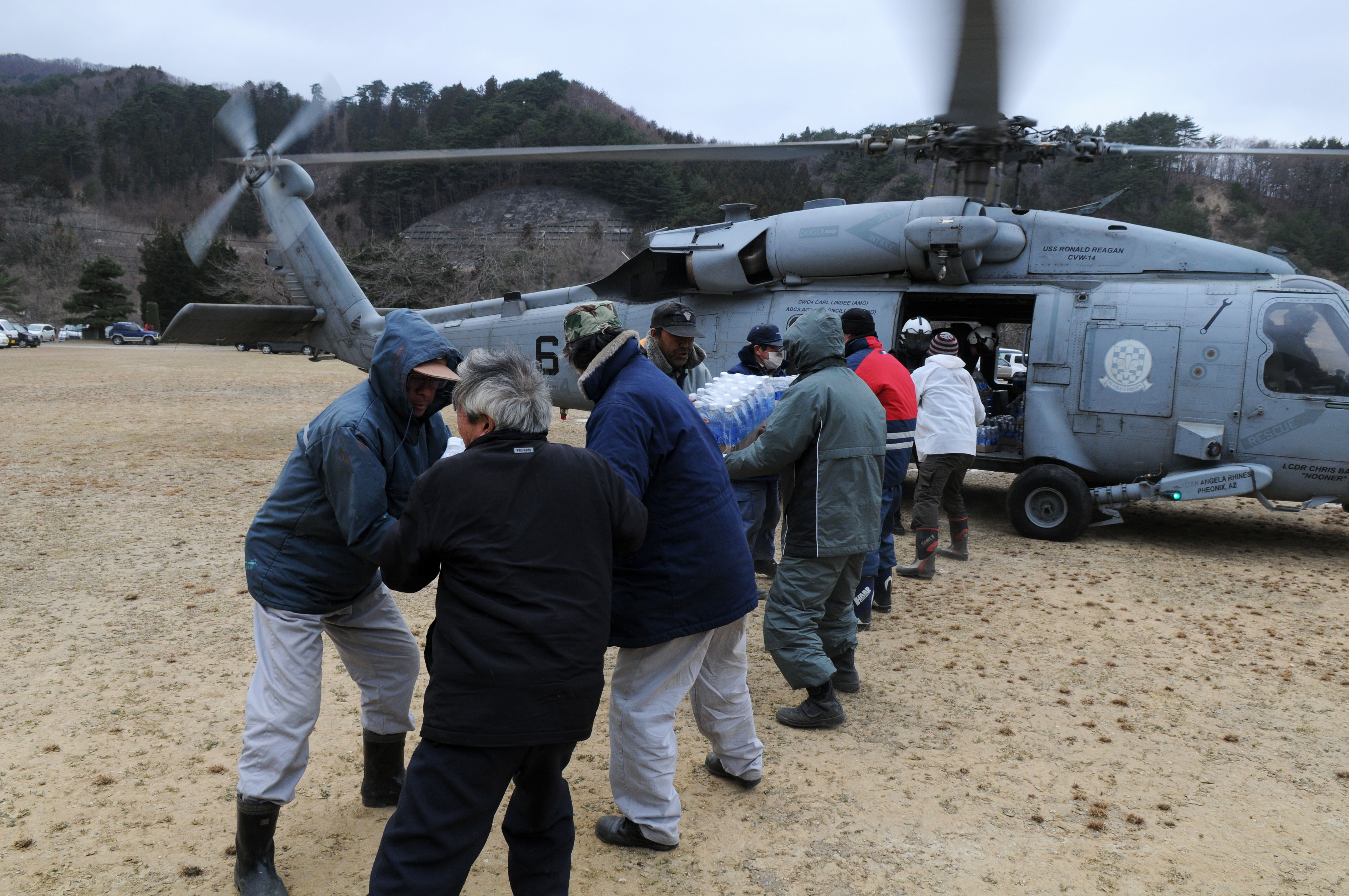 NORTHERN JAPAN (March 15, 2011) Japanese citizens receive supplies from Sailors assigned to the Black Knights of Helicopter Anti-Submarine Squadron (HS) 4 embarked aboard the aircraft carrier USS Ronald Reagan (CVN 76). HS-4 is delivering humanitarian supplies to areas affected by a 9.0 magnitude earthquake and subsequent tsunami. Ships and aircraft from the Ronald Reagan Carrier Strike Group are conducting search and rescue operations and re-supply missions as directed in support of Operation Tomodachi throughout northern Japan. (U.S. Navy photo by Mass Communication Specialist 3rd Class Kevin B. Gray/Released)